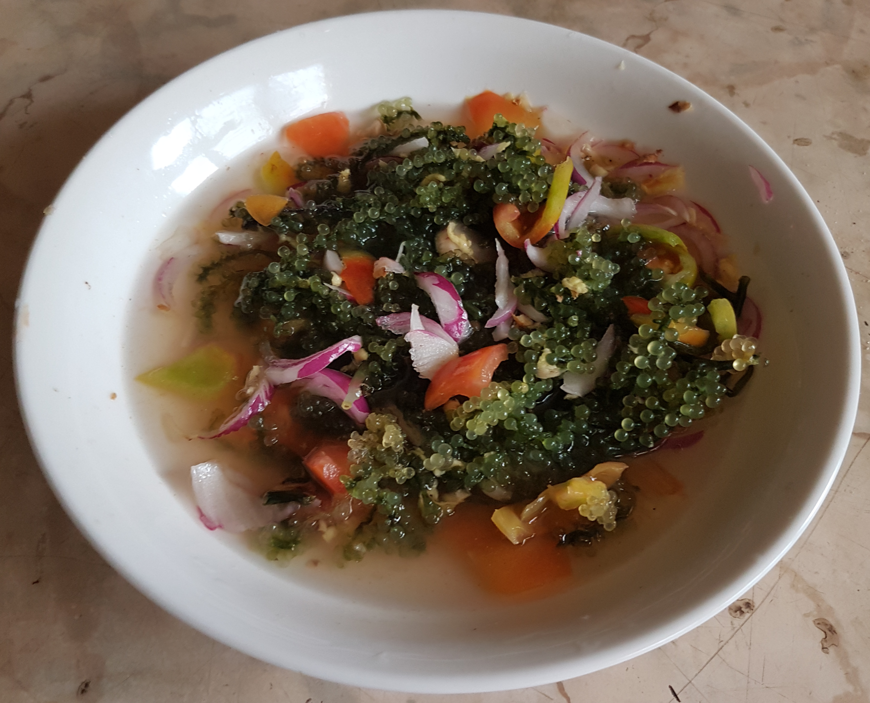 Ensaladang Latô (also known as Kinilaw na Gusô in Cebuano, and "Seaweed Salad" in English), is a Philippine salad made from the edible green algae Caulerpa lentillifera.